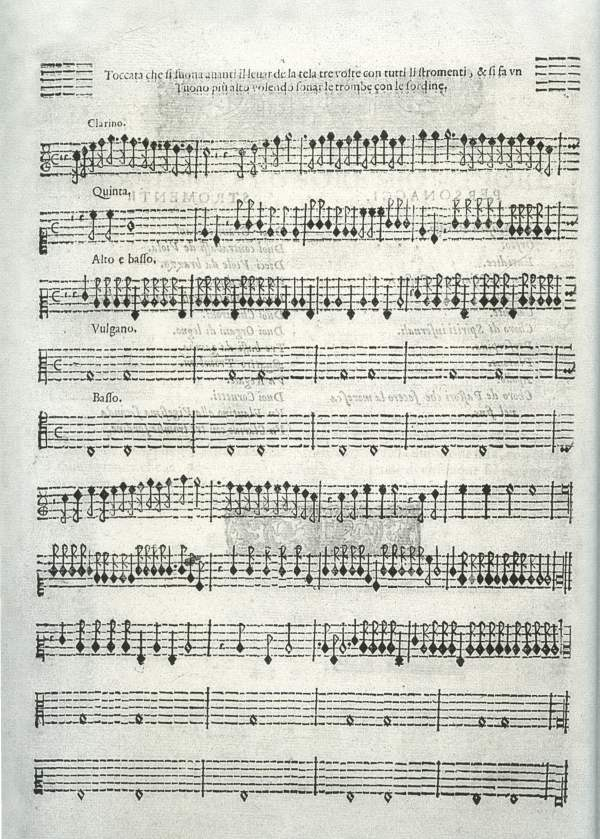 Toccata from L’Orfeo. Favola in musica. Reprint of the First Edition of the Score, Venice 1609